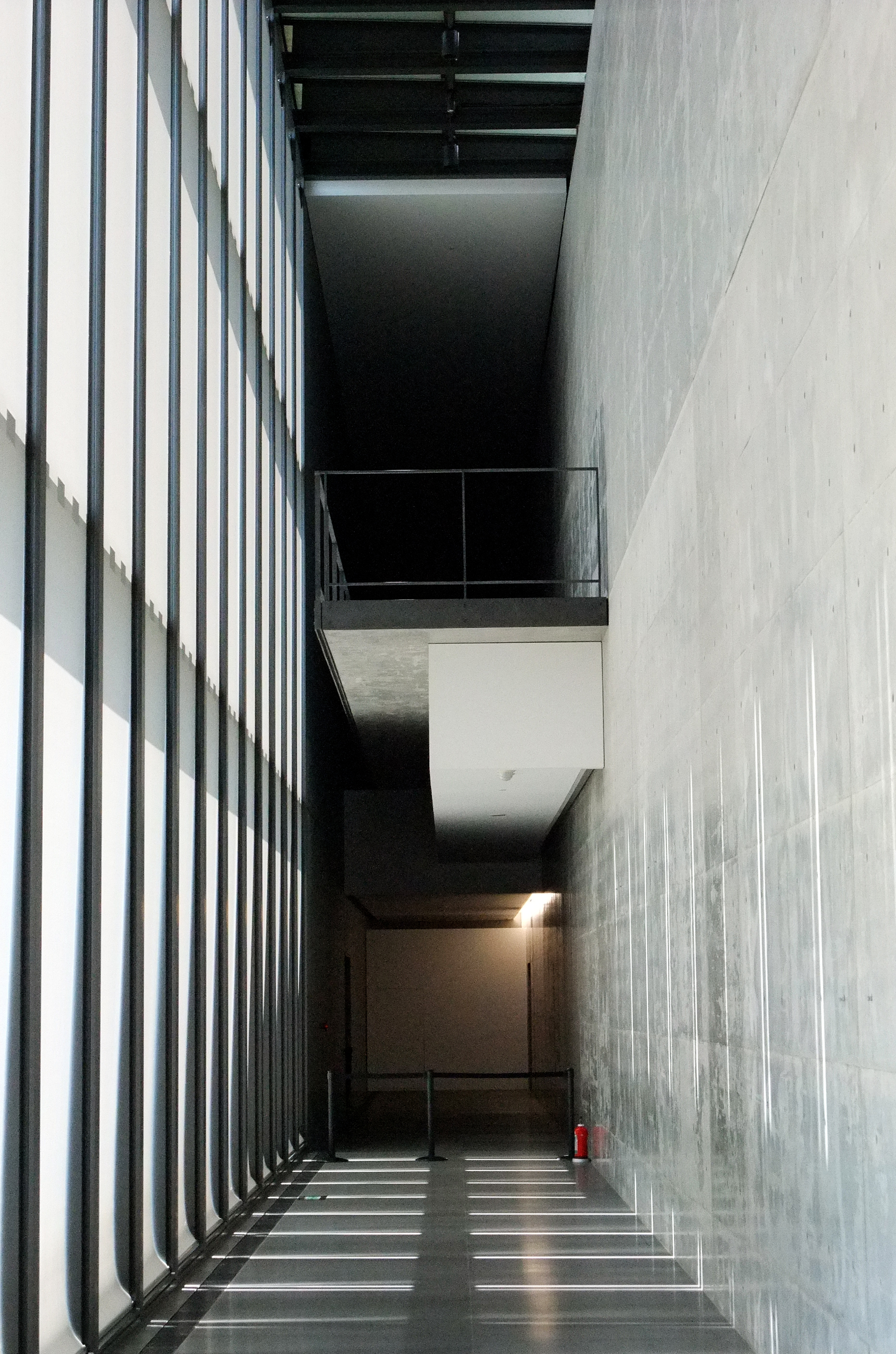 Hyogo Prefectural Museum of Art in Kobe, Hyogo prefecture, Japan